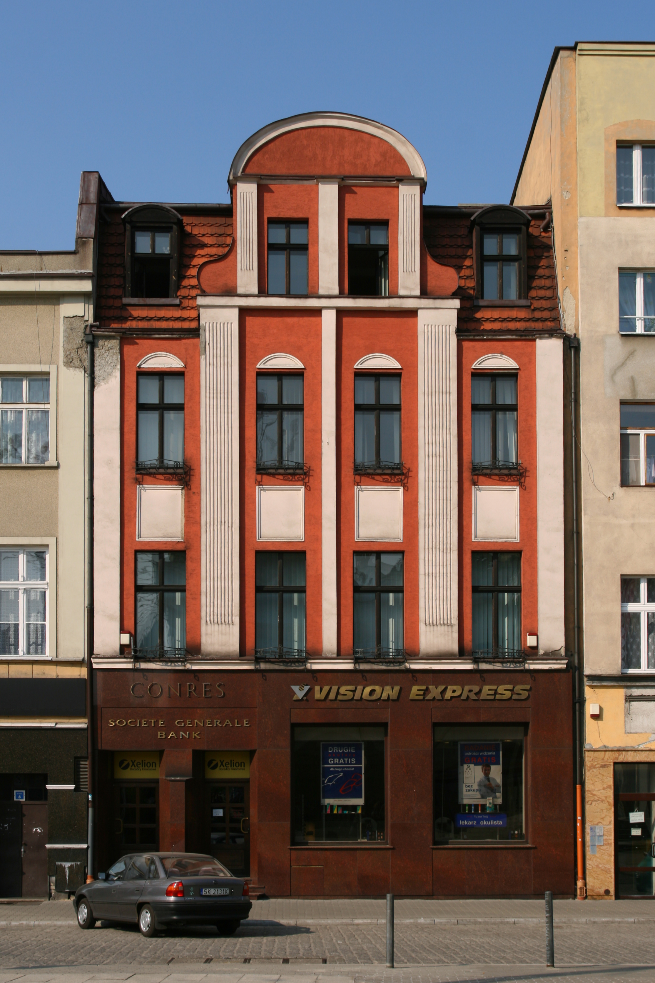 Tenement house on the Marketplace in Katowice (Poland).